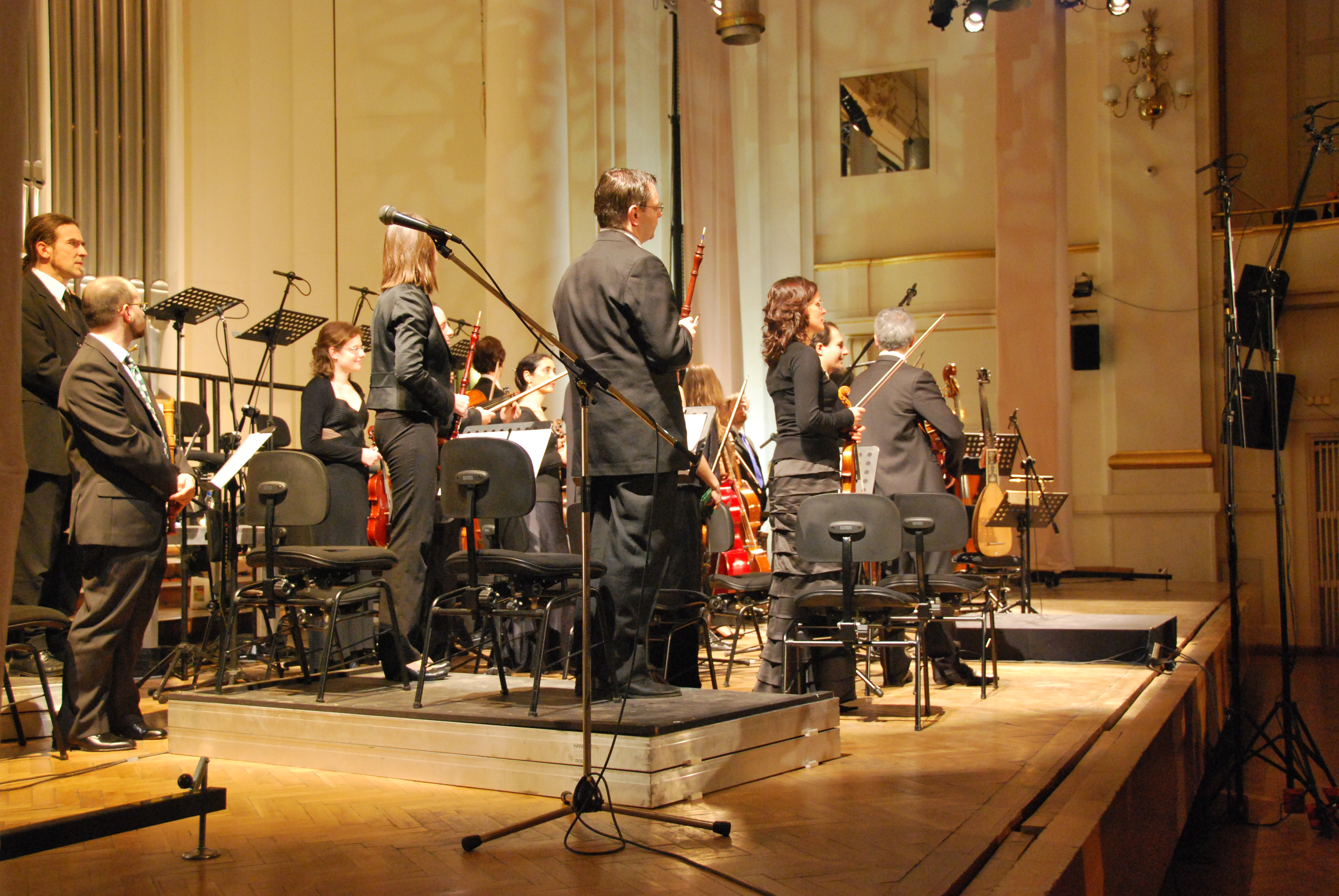 Il Giardino Armonico, Misteria Paschalia Festival, Kraków Philharmonic, 04.04.2010.